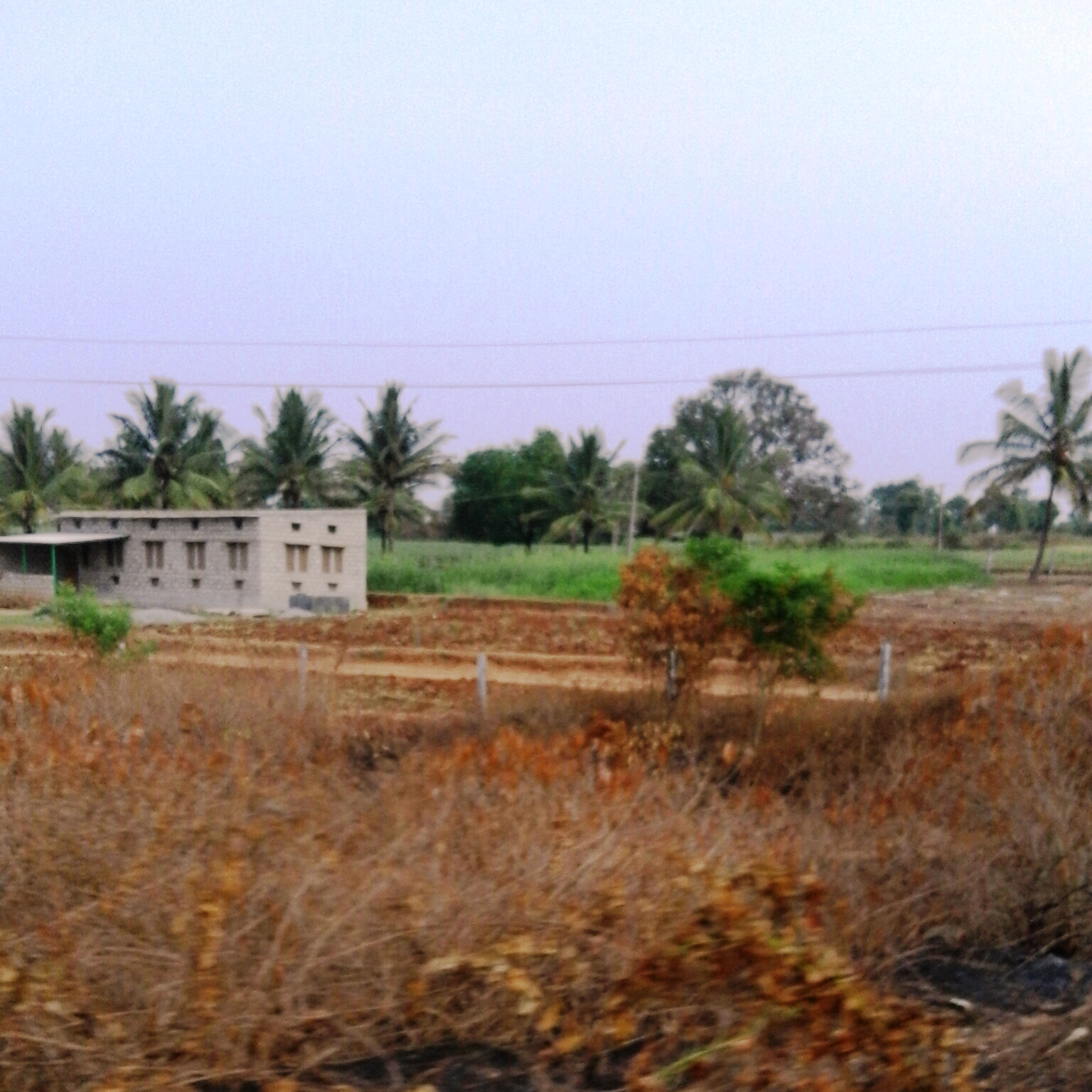 Mananthavady Road, Mysore district, Karnataka province, India.